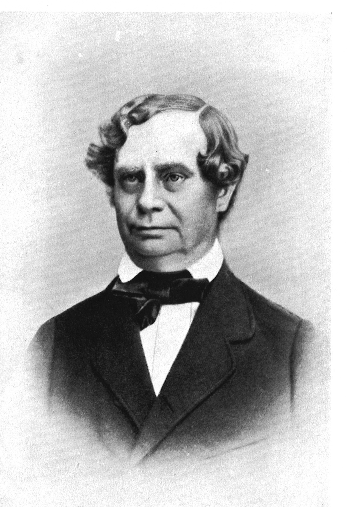 Carl August Hagberg (1810-1864), Swedish linguist, professor at Lund University, member of the Swedish Academy and the first person to translate the complete works of Shakespeare to Swedish.